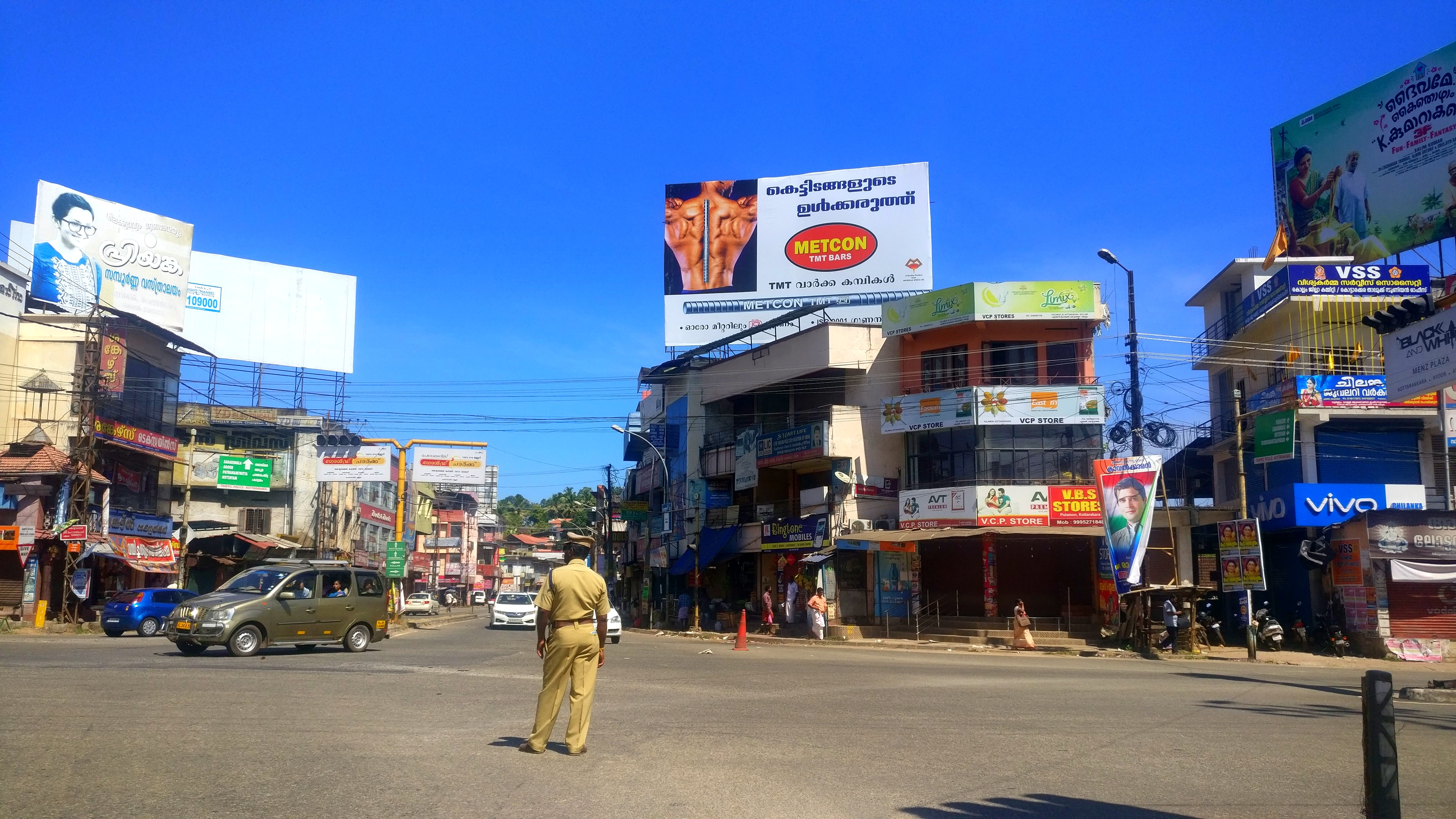 Pulamon is the major junction in Kottarakara town, Kollam